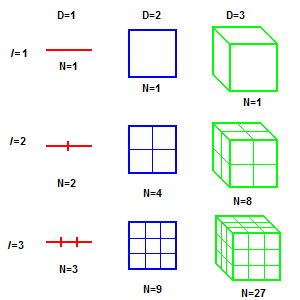 Aid to defining fractal dimensions. Traditional notions of geometry for defining scaling and dimension.